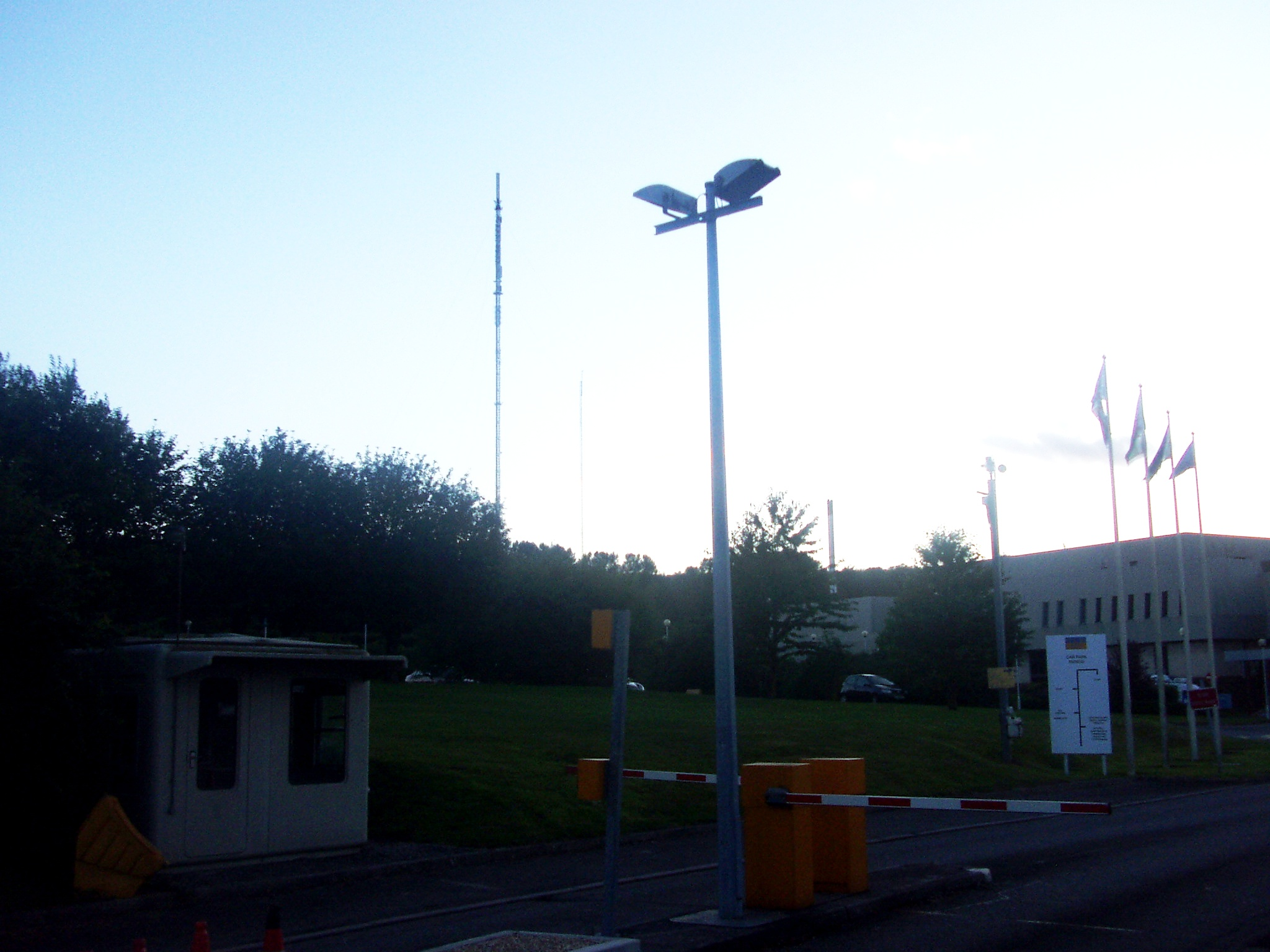 Wenvoe Transmitter, HTV headquarters,Culverhouse Cross, Cardiff suburbs, Vale of Glamorgan, south Wales